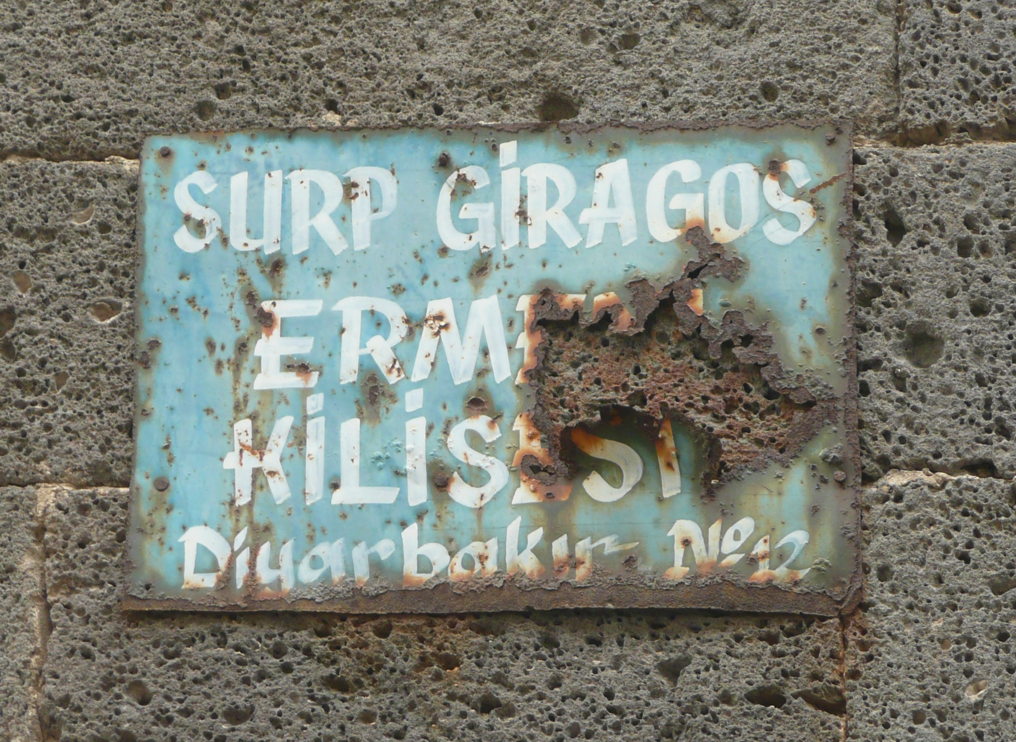 Photographs from Diyarbakir, Turkey